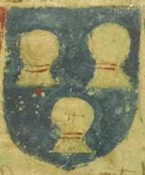 Coat of arms of "Le conte de Boghn" as it appears in the fourteenth-century Balliol Roll.